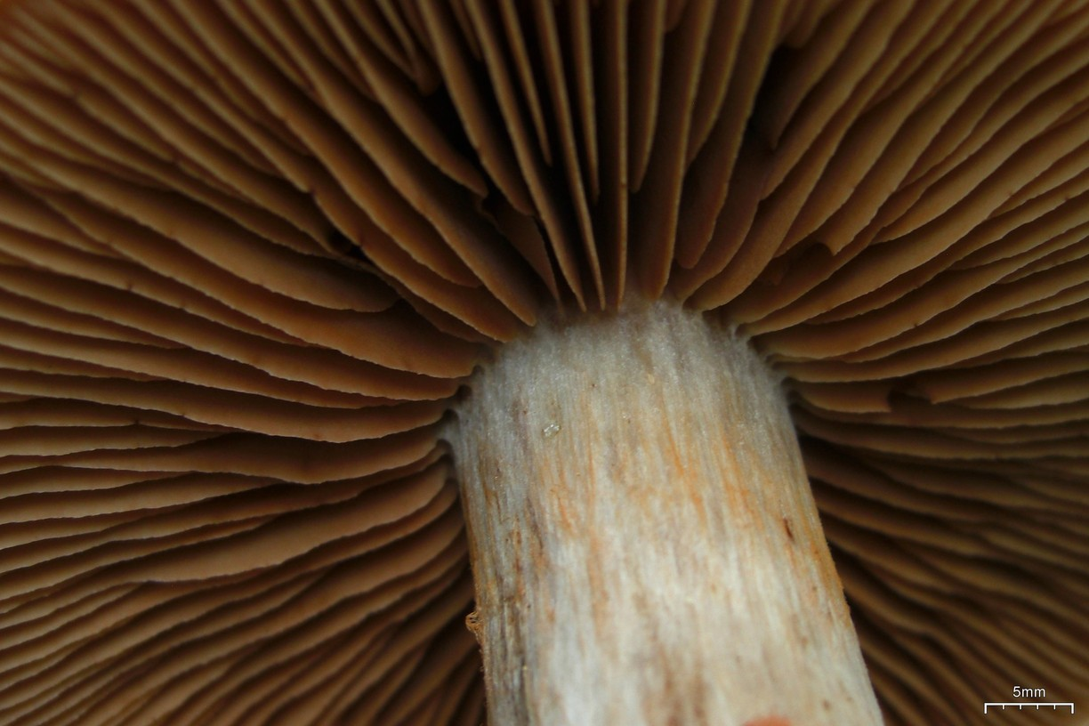 Cortinarius armillatus 20090911.25 Canada, BC, Wells Gray Park